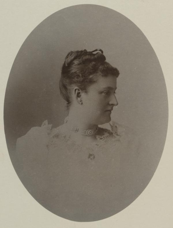 Title May Lammot (du Pont) Saulsbury, 1854-1927 Date Created (start) 1890 Date Created (end) 1910 Former owner Du Pont, Pierre S. (Pierre Samuel), 1870-1954 Subject(s) - Name Saulsbury, May du Pont, 1854-1927 Find all items with name(s) Du Pont, Pierre S. (Pierre Samuel), 1870-1954 Saulsbury, May du Pont, 1854-1927 Genre portrait photographs Language English Type of resource still image Extent 1 photographic print : b&w Repository Audiovisual Collections and Digital Initiatives Department, Hagley Museum and Library